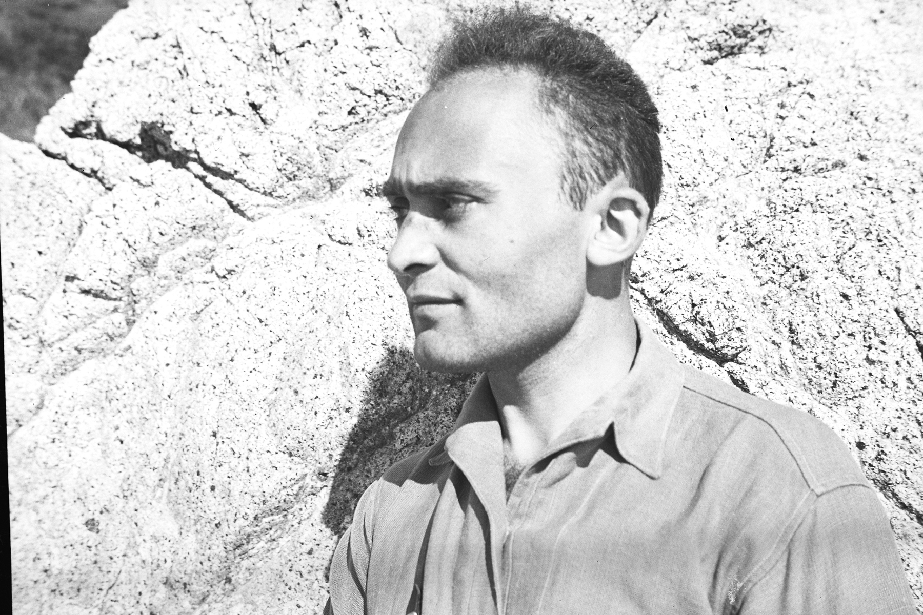 Photograph of Nathan Adler as a young man